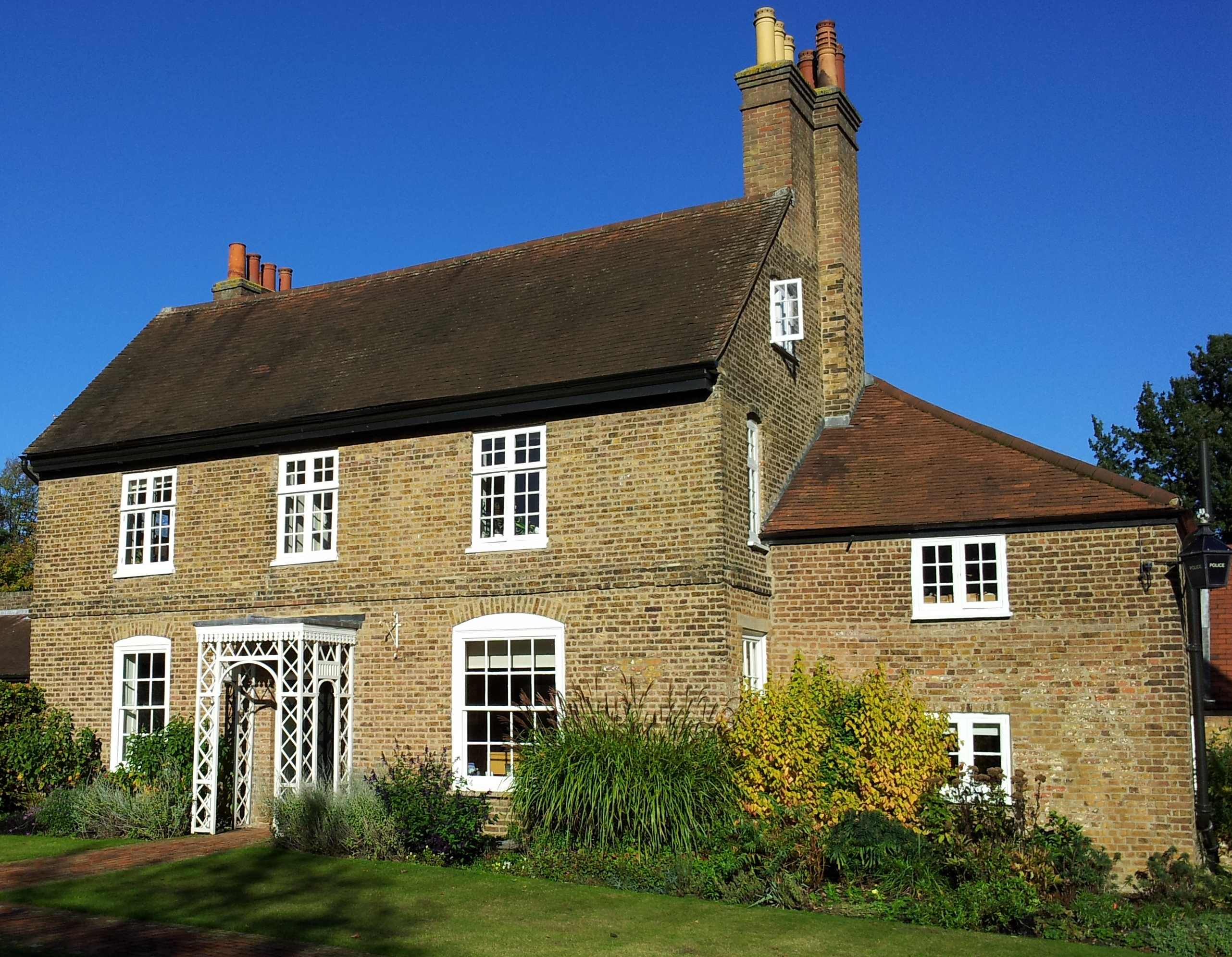 Holly Lodge, Richmond Park, London